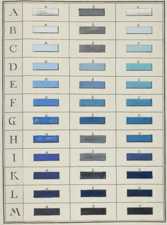 Table with blue tones of Ignaz Schiffermüllers Versuch eines Farbensystems, 1772